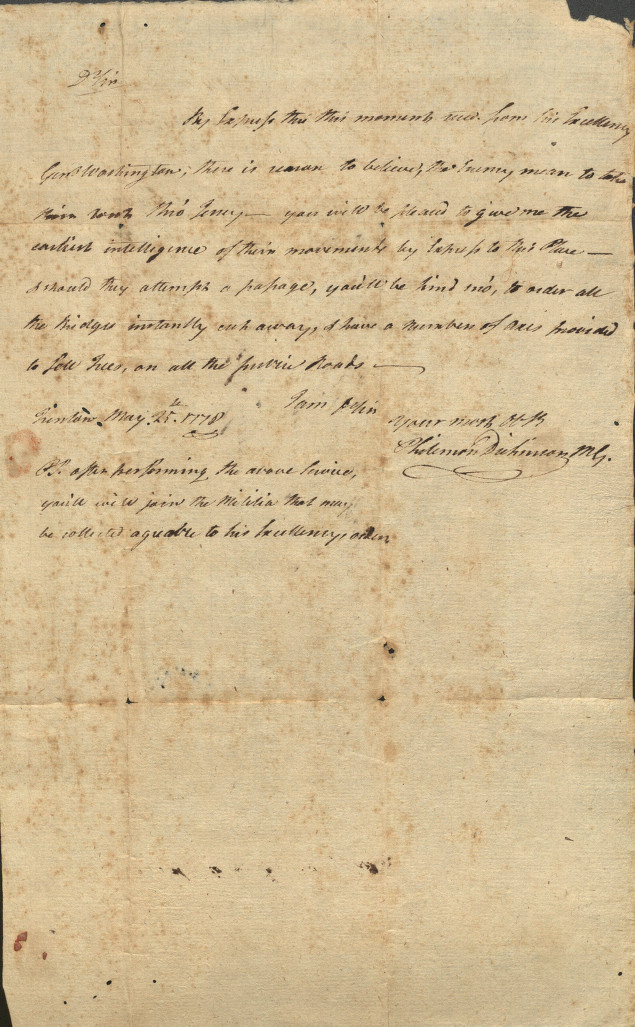 Correspondence from Major General Philemon Dickinson to Shreve on May 25, 1778. Sent from Trenton.